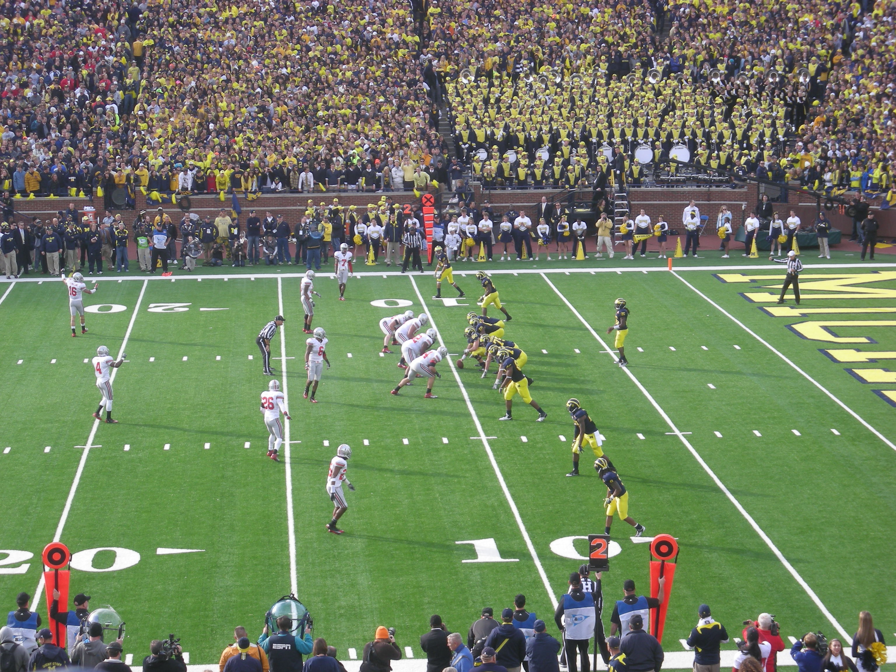 Michigan on offense during the Ohio State Buckeyes vs. Michigan Wolverines football game at Michigan Stadium in Ann Arbor, Michigan (United States). Michigan won 40–34.